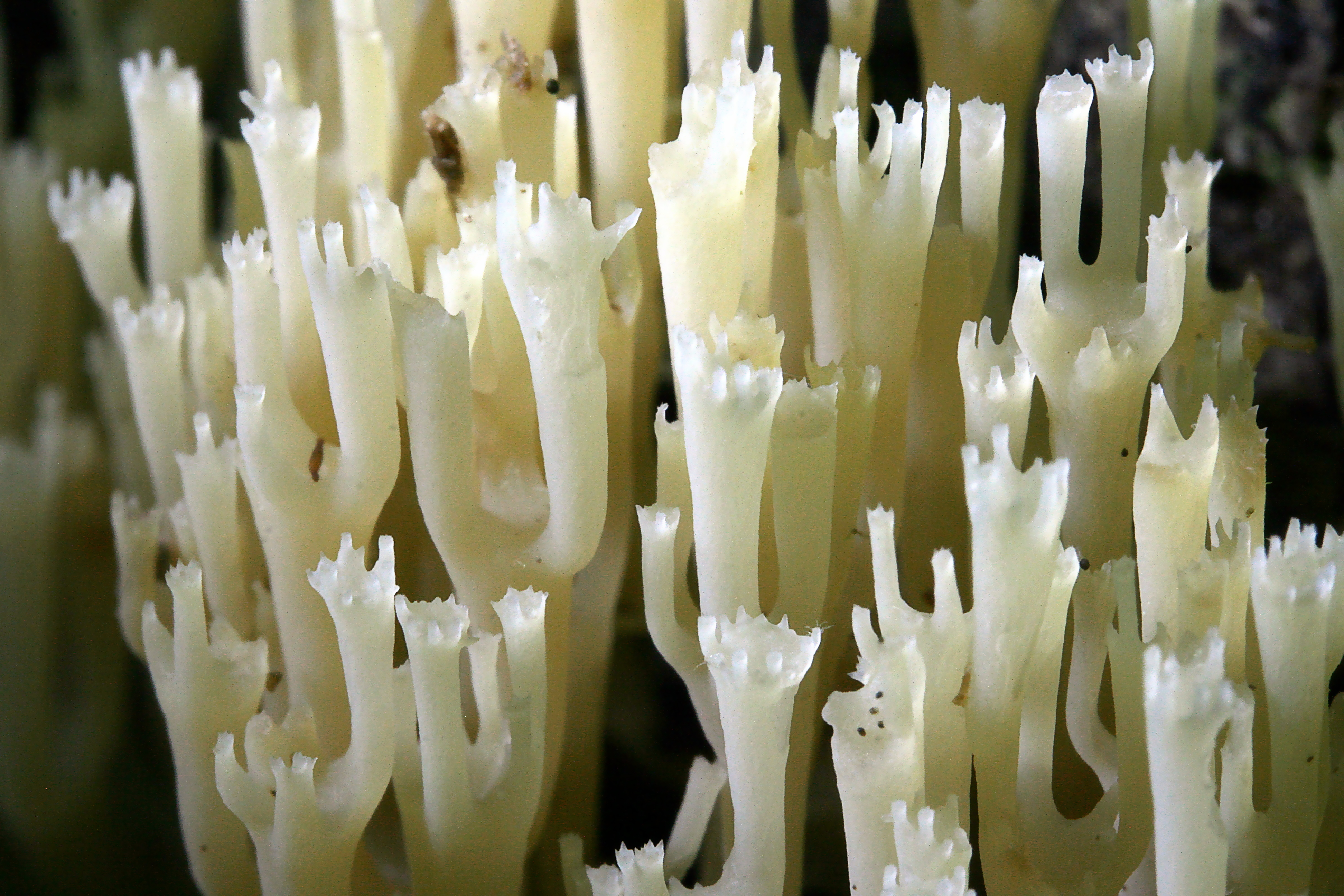 Artomyces pyxidatus (Pers.) Jülich Image location: Culpeper Co., Virginia, USA Delicate coral-like fruiting on wood. Recognized by sight For more information about this, see the observation page at Mushroom Observer.